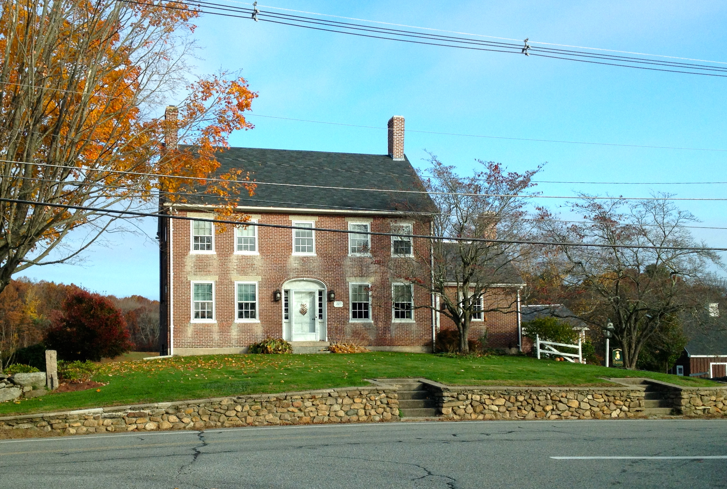 Aldrich Village; descendents of George Aldrich settled the area around Quaker City, at Uxbridge, MA; Famous American Political family; Quaker style brick architecture